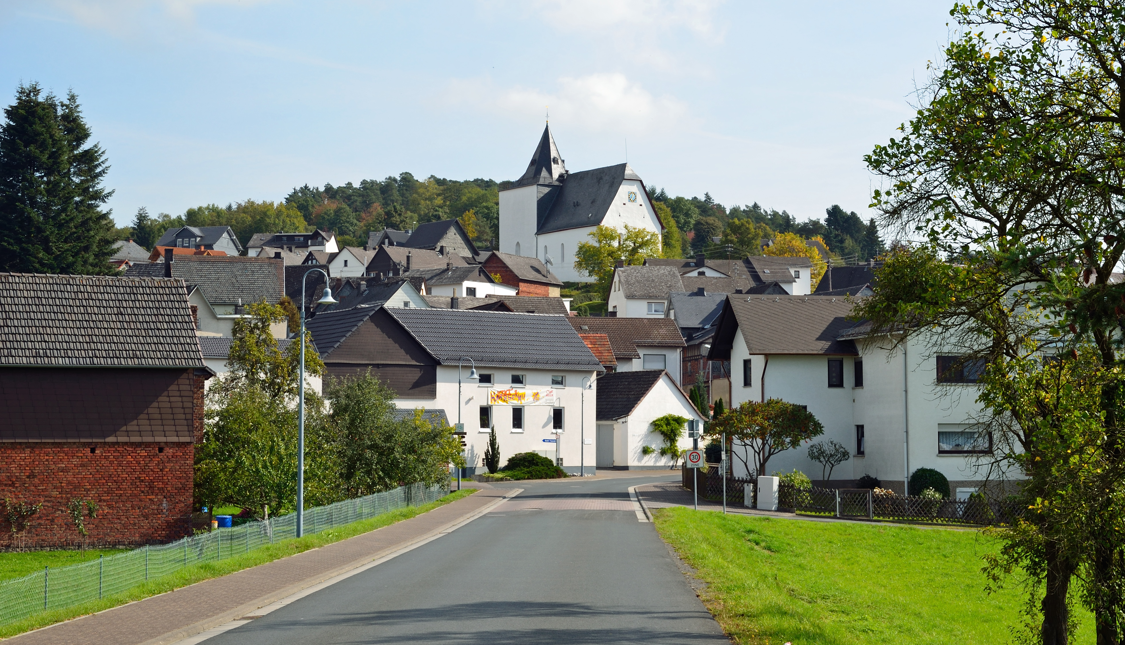 St. Mary's Church in Niederweidbach, Bischoffen